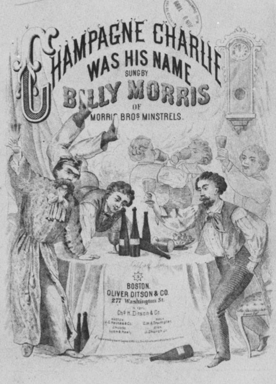 Sheet music cover: "Champagne Charlie was his name. Written by H. J. Whymark, composed by Alfred Lee. Sung by Billy Morris of Morris Bros. Minstrels. Boston, Oliver Ditson & Co., 1867."